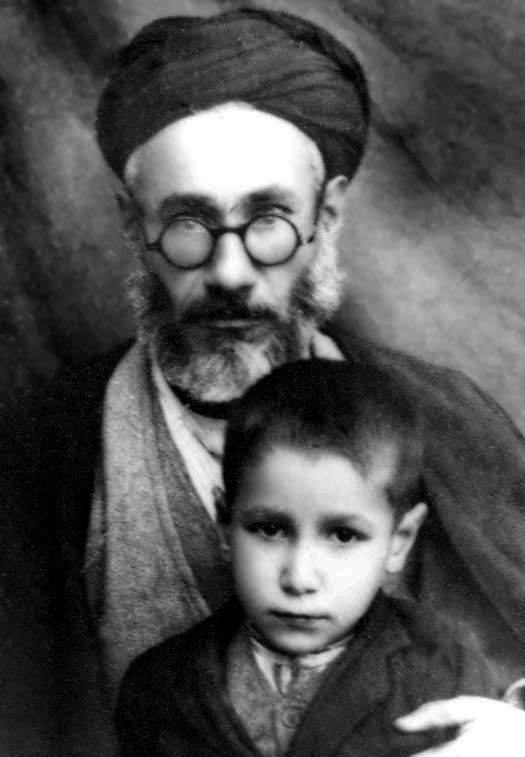 Ruhollah Khatami and 5 years old Mohmmad Khatamani chidlhood